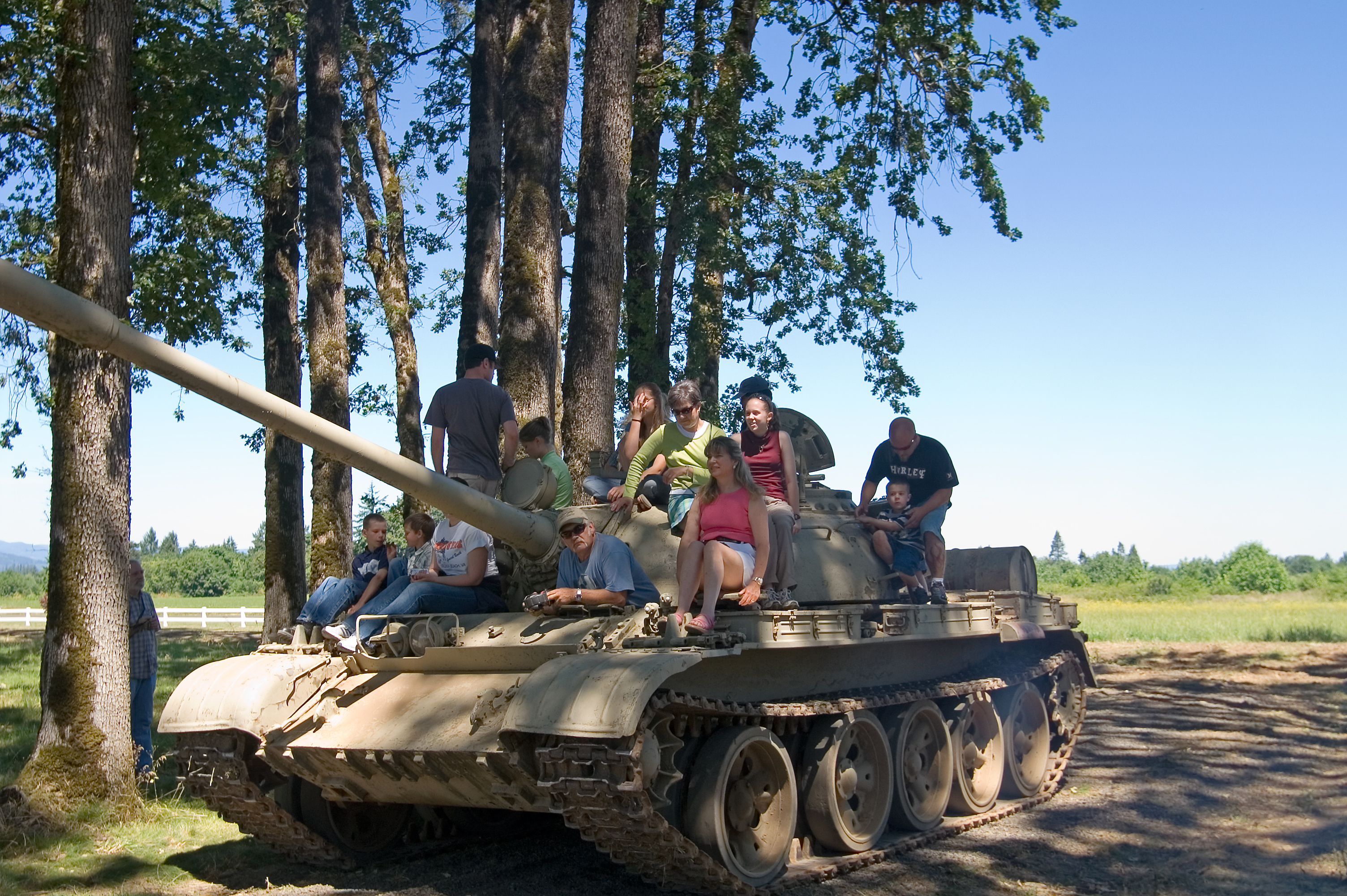 T-55 used for tank rides at the Evergreen Aviation Museum in McMinnville, Oregon.